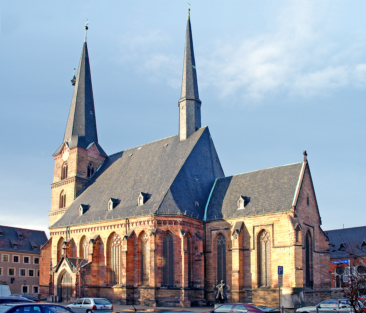 This image shows the Katharinenkirche in Zwickau (Saxony, Germany).